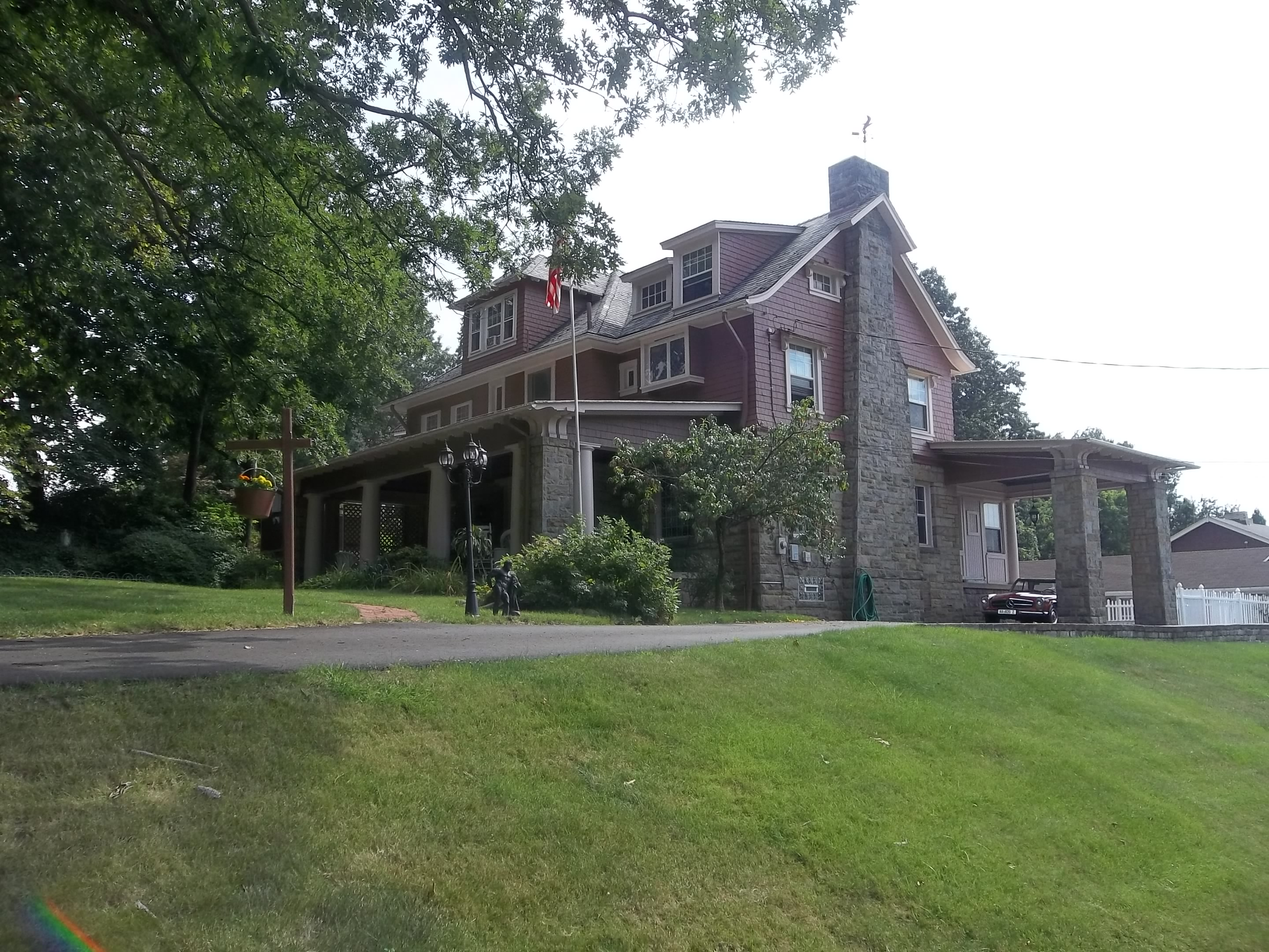 This is the house from the book "The Demon of Brownsville Road.